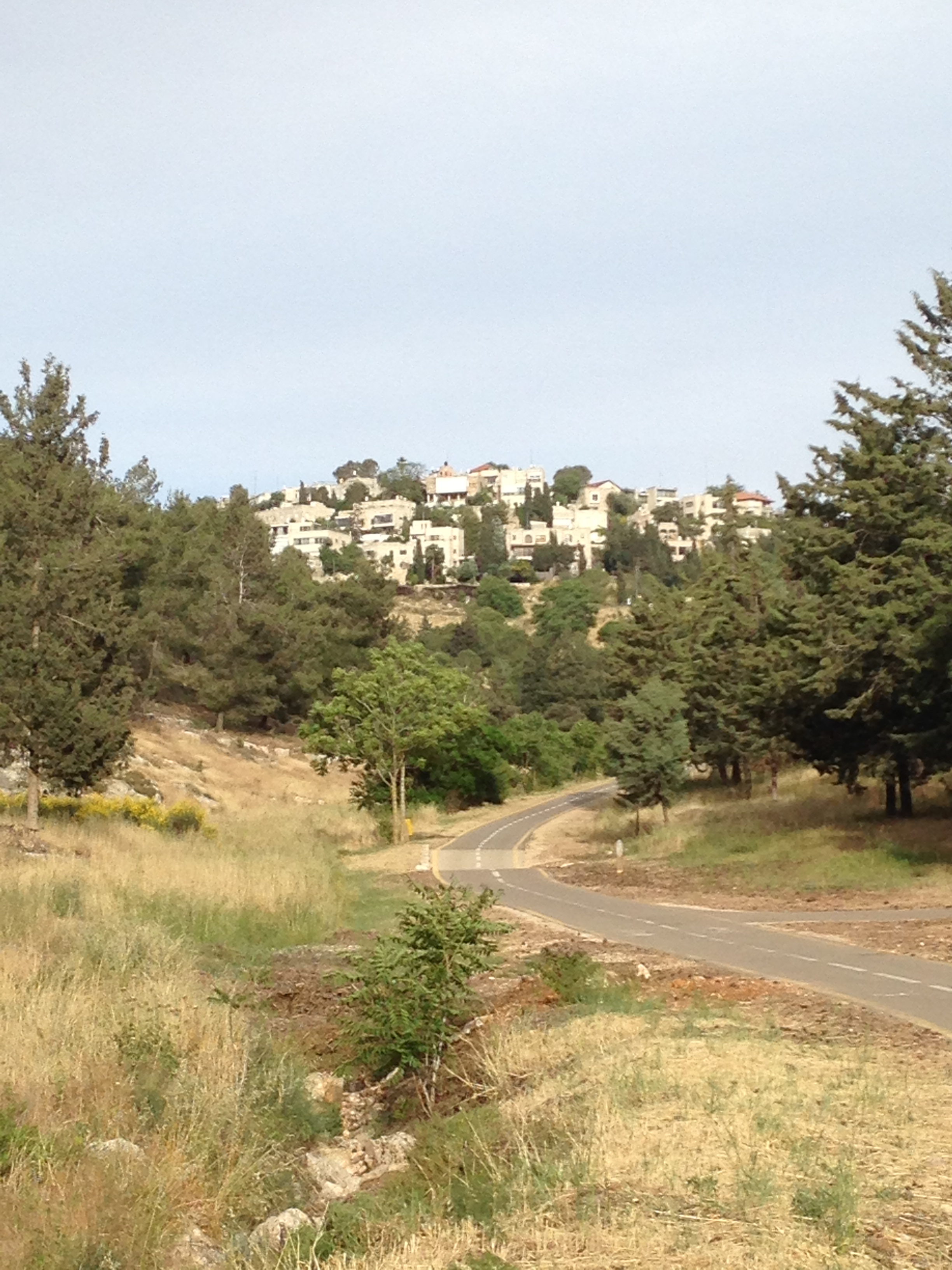 נחל צופים Givat HaMivtar from Brook of Scopus Park